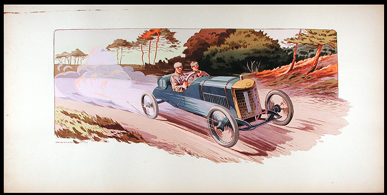 "Racing Car Number 11. Grand Prix de France 1913. Le Mans Pablot sur Delage, Paris: Mabileau & Co., 1913. Hand-coloured pochoir print. Image size (including text): 12 1/4 x 27 1/4 inches. Sheet size: 17 1/2 x 35 1/4 inches."